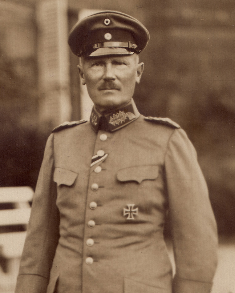 Lieutenant-General Walter von Heinemann, Commander 34th Infantry-Division